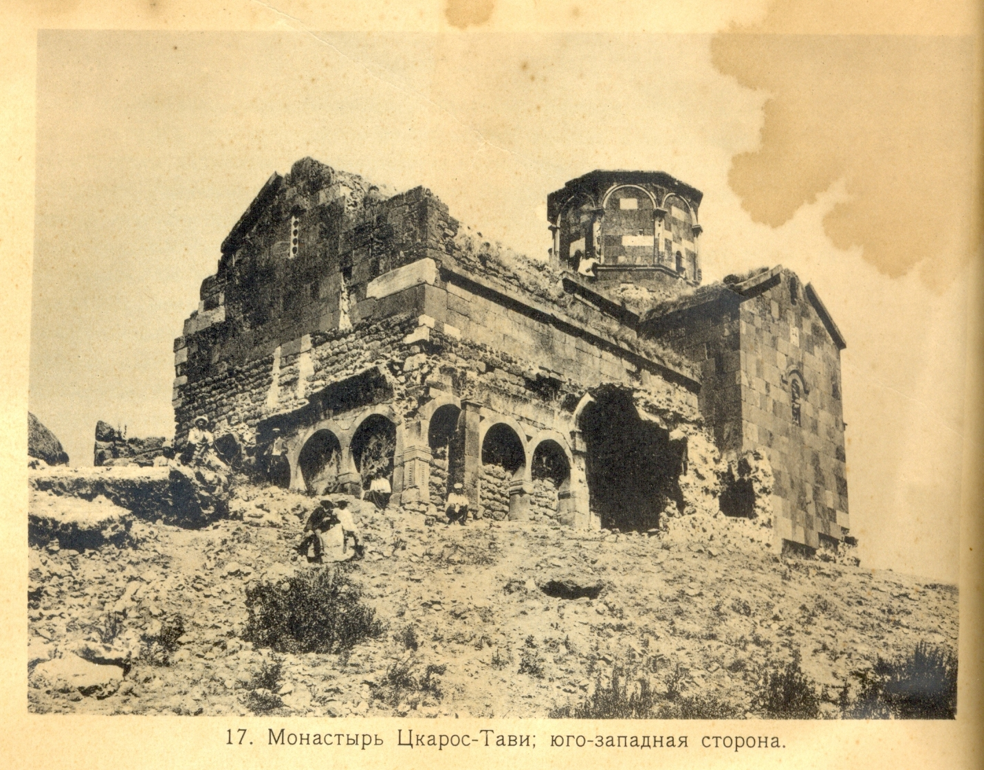 Javakheti Tskarostavi kathedral